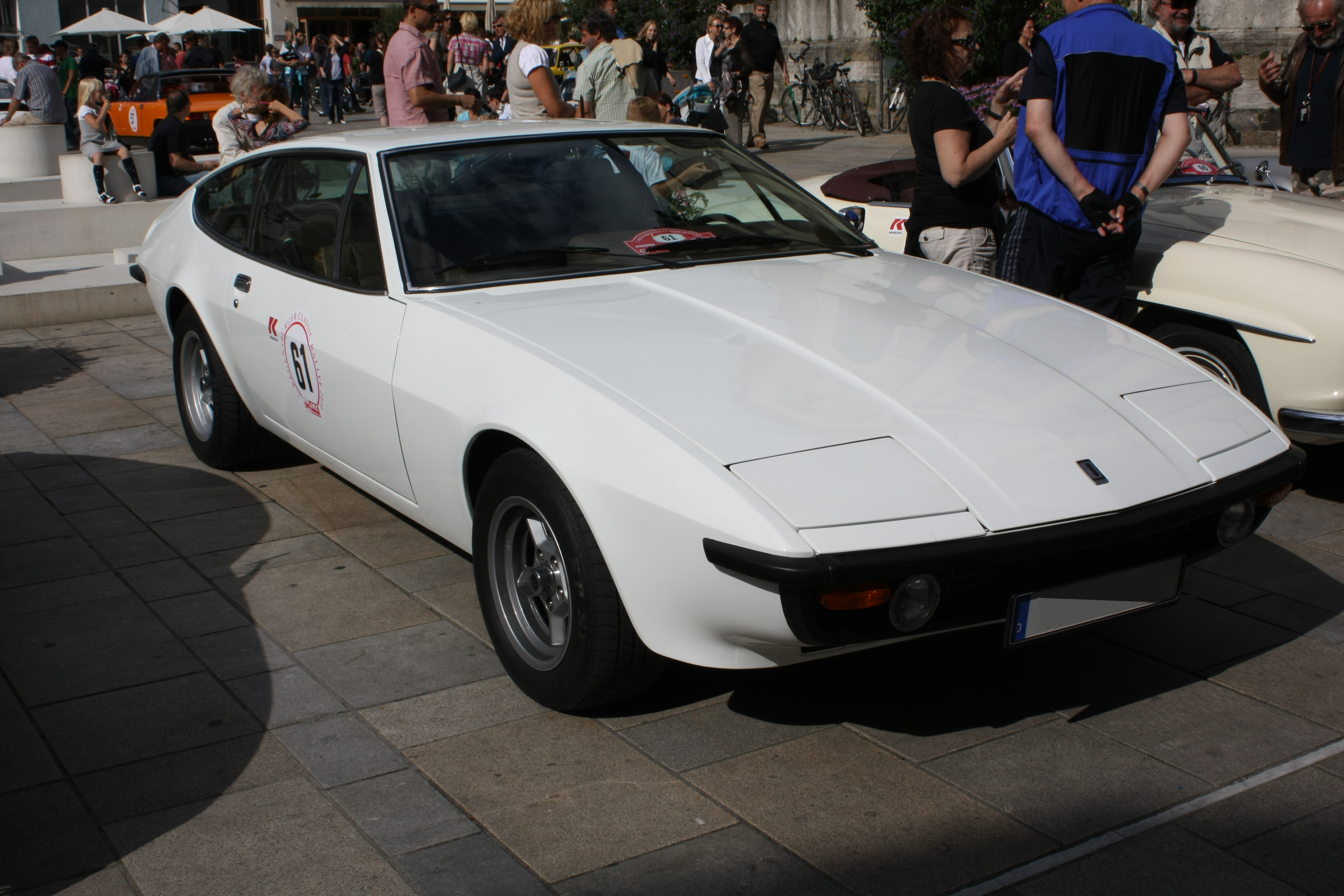 Bitter CD